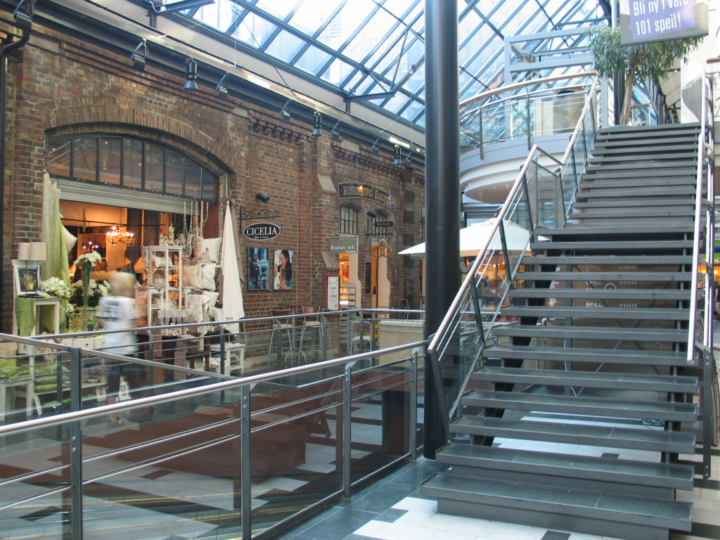 Solsiden shopping center at Nedre Elvehavn in Trondheim.